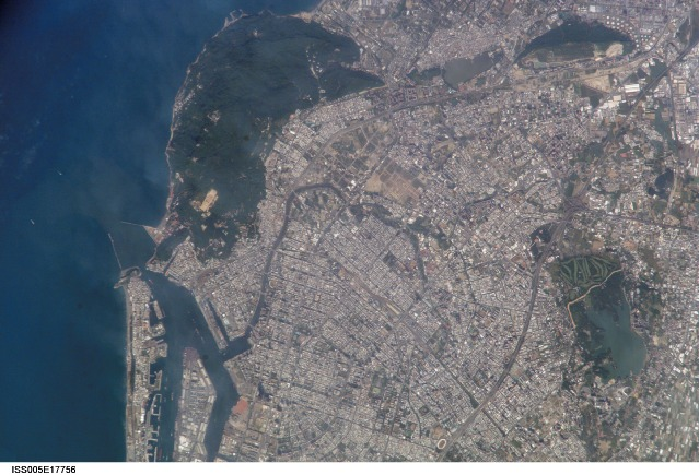 a part of Kaohsiung, focus on its "1st entrance" of the seaport. Date: 10.18.2002 Title: TAIWAN/KAO-HSIUNG Description: TAIWAN/KAO-HSIUNG ID: ISS005-E-17756 Credit: NASA Johnson Space Center - Earth Sciences and Image Analysis (NASA-JSC-ES&IA)